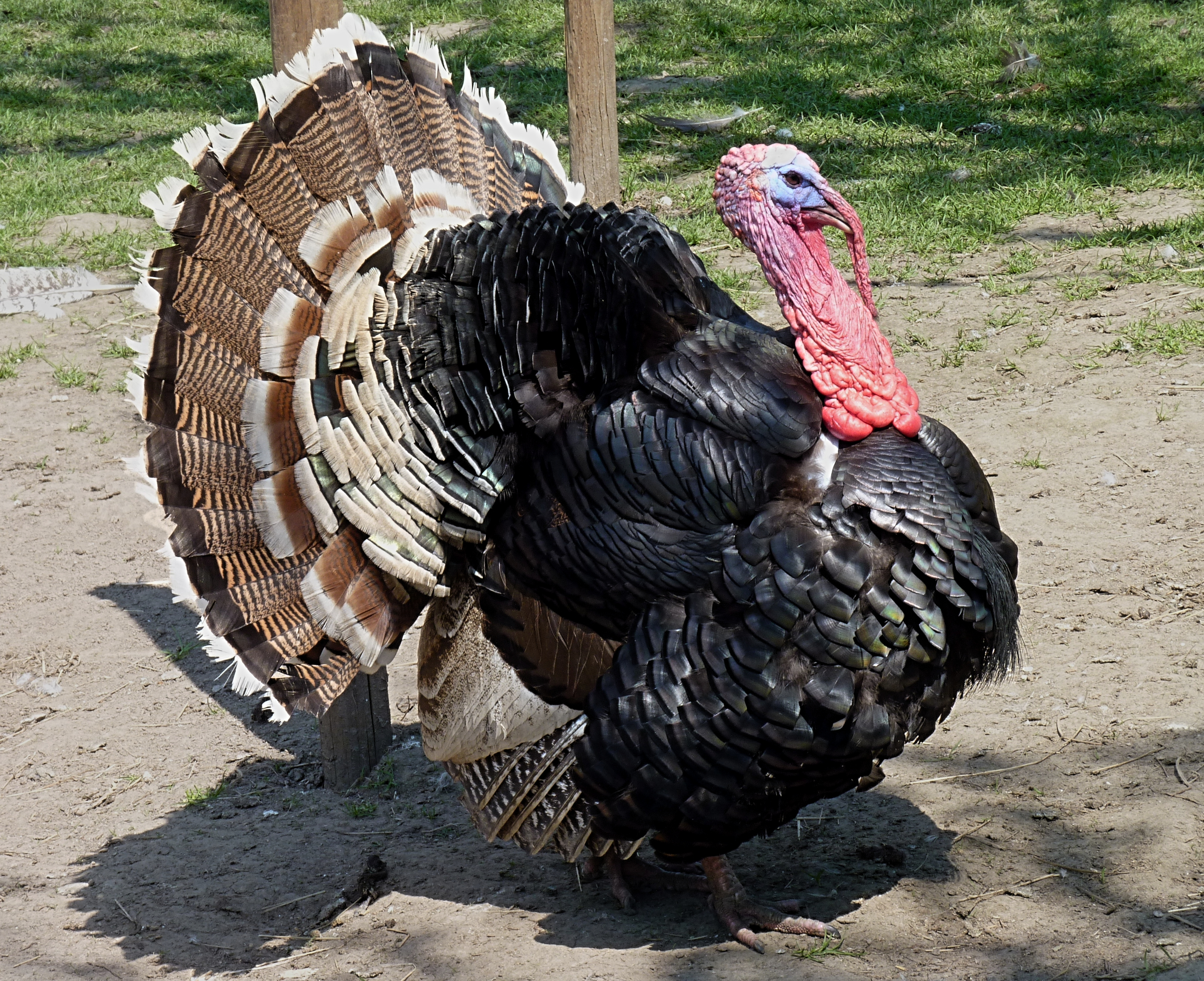 Ronquières turkey (male), picture taken in Belgium.